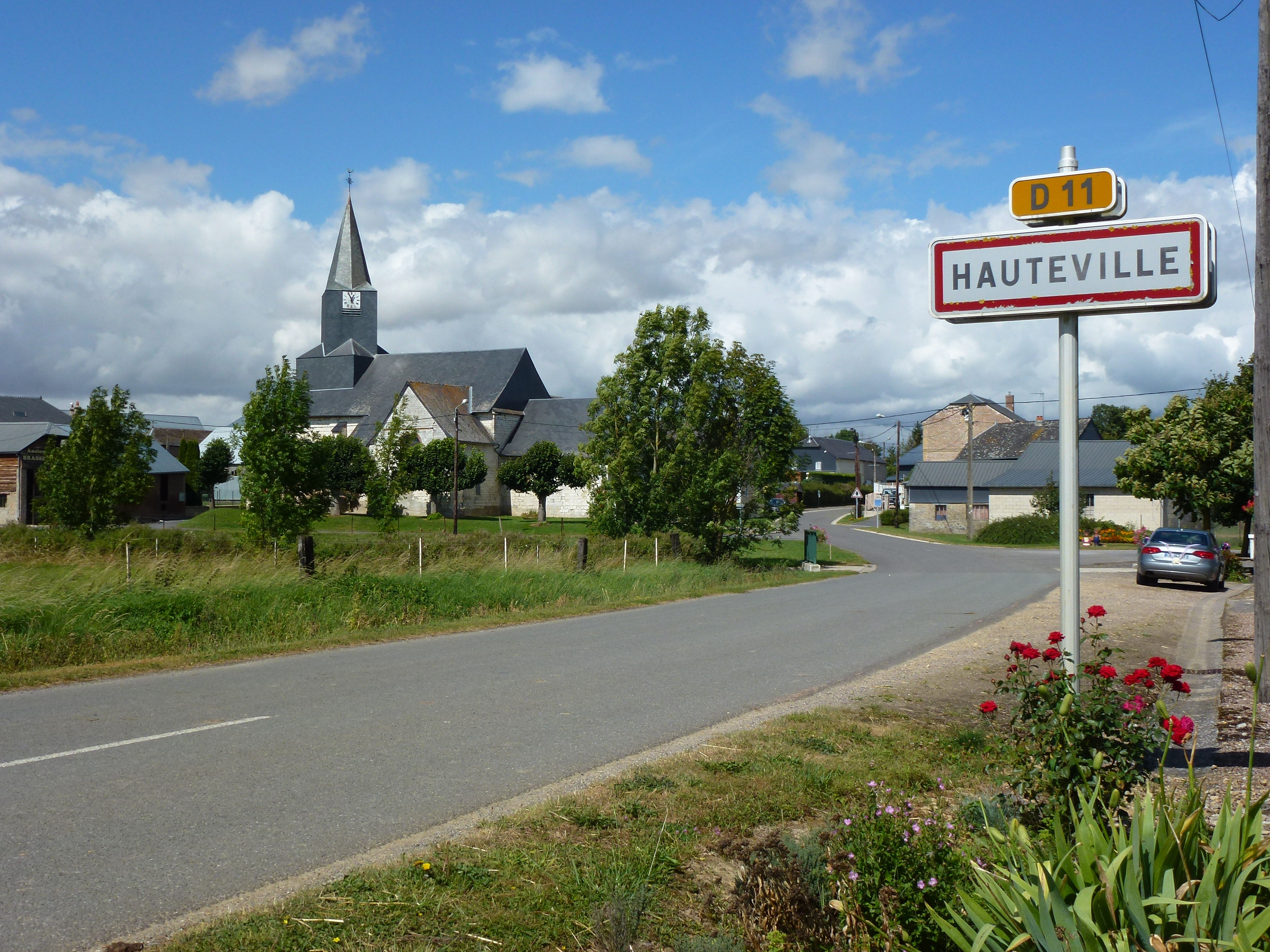 Hauteville (Ardennes) city limit sign